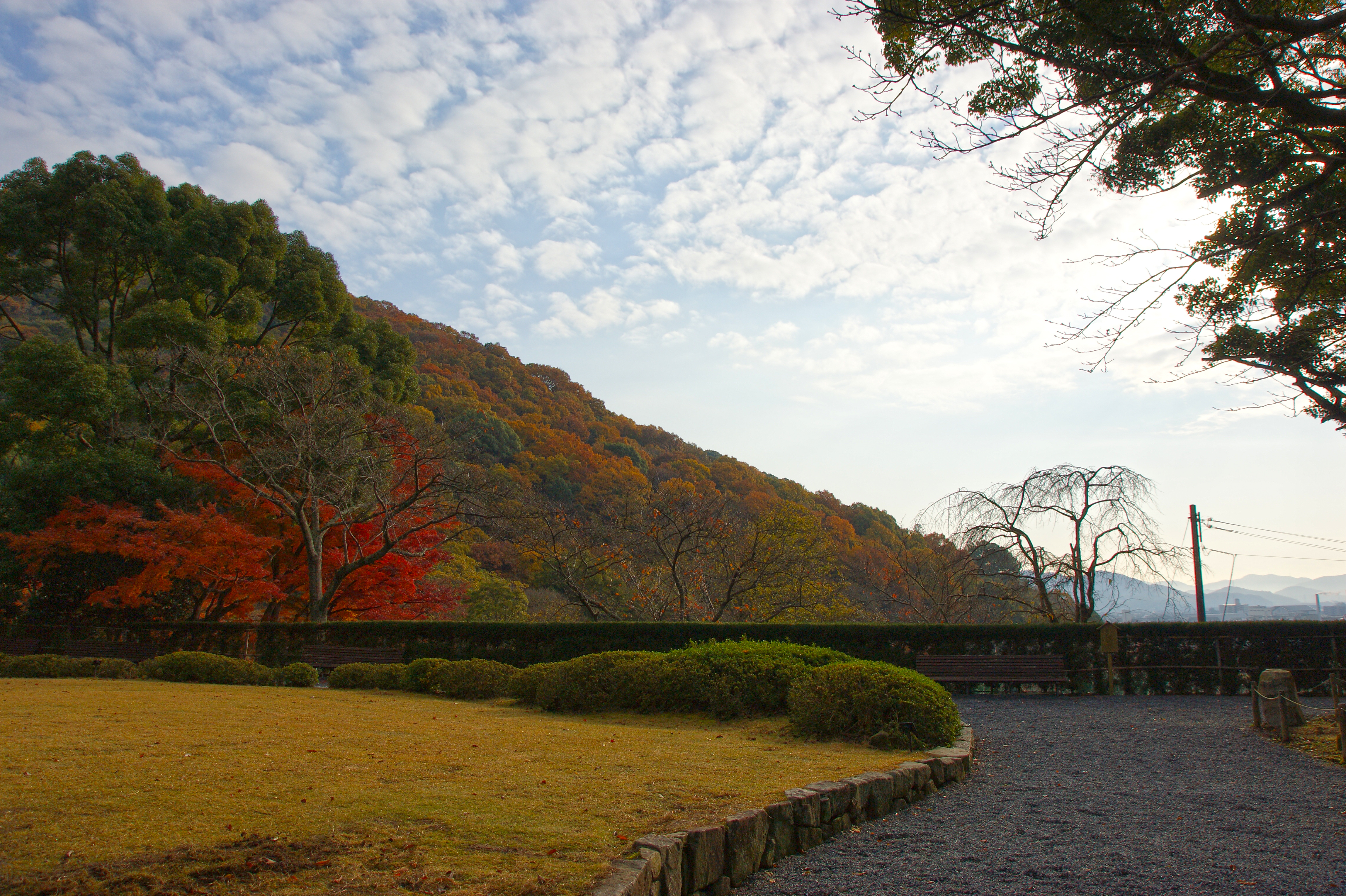 Shuentei, Tatsuno, Hyogo prefecture, Japan